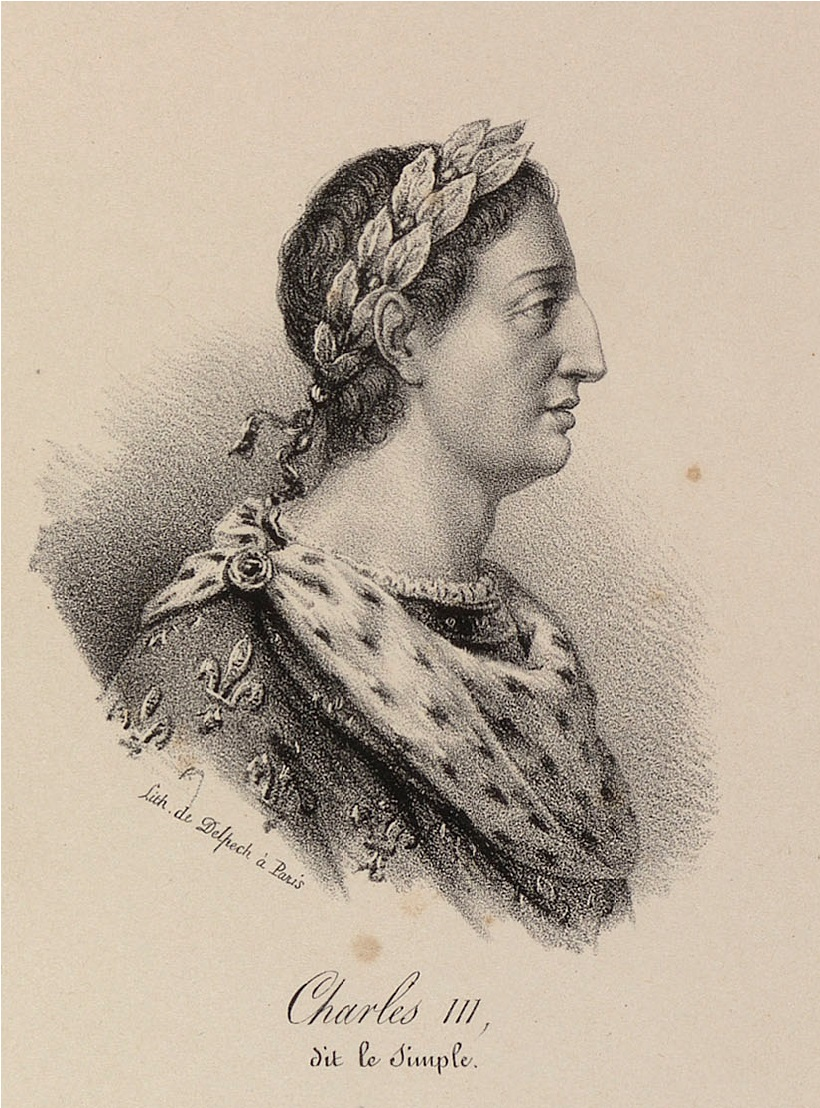 Charles the Simple (879-929)